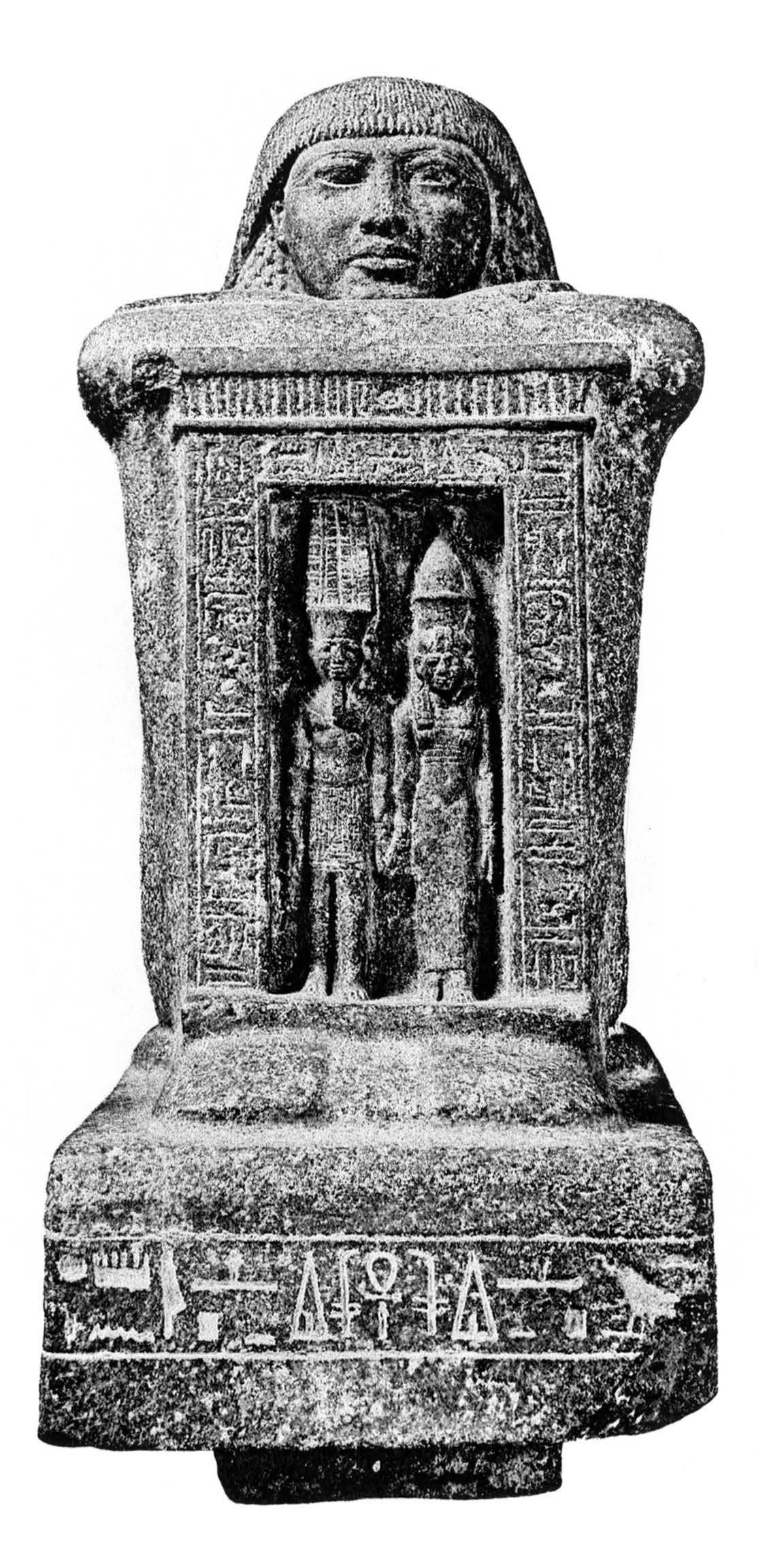 Block statue of the vizier Khay, who served under Ramesses II, with a naos of Amun and Mut. Granite, found in 1904 at Karnak, in the great temple Cachette. Reign of Ramesses II, 19th dynasty, New Kingdom. Cairo, Egyptian Museum CG 42165 (JE 37406).